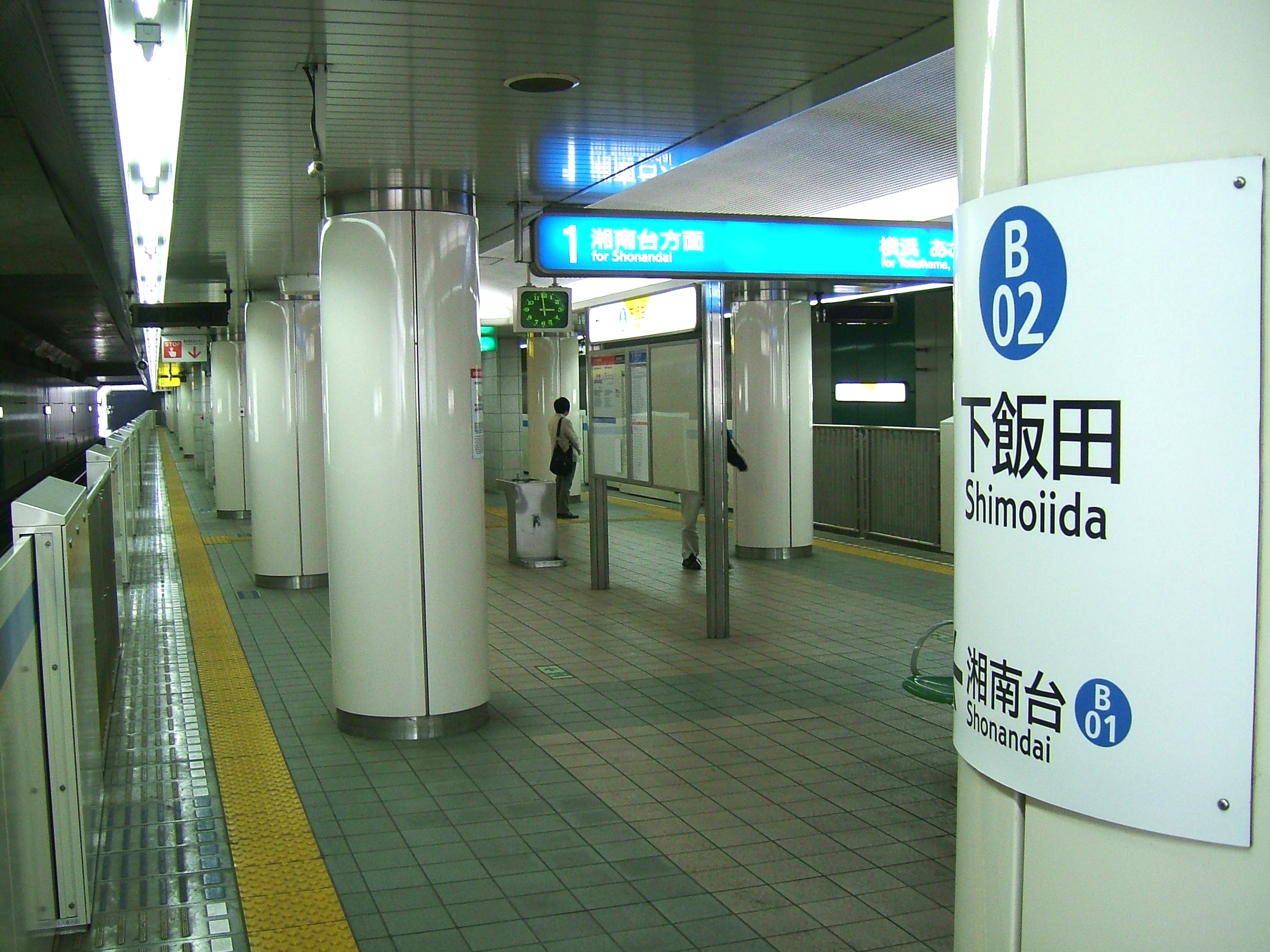 Shimoīda Station platform (Yokohama Municipal Subway Blue Line)